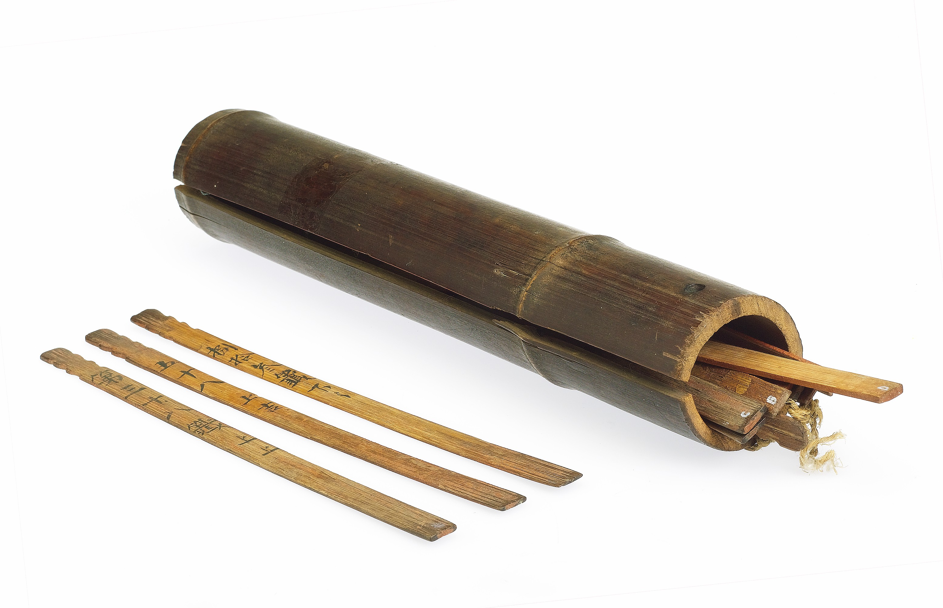 Chien Tung sticks, cylindrical container with 18 inscribed sticks, China, 1800-1920. Front three quarter view. White background. Wellcome Images